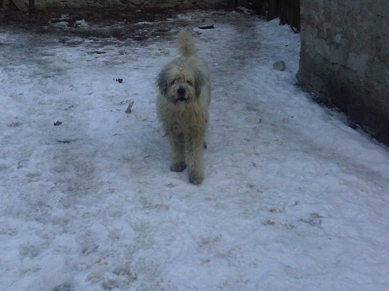 Young Mioritic Shepherd Dog in Surján Mountins, Transylvania.